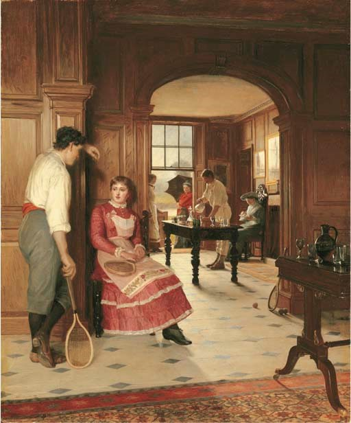 "The Summer Shower" by Edith Hayllar, exhibited at the Royal Academy in 1893